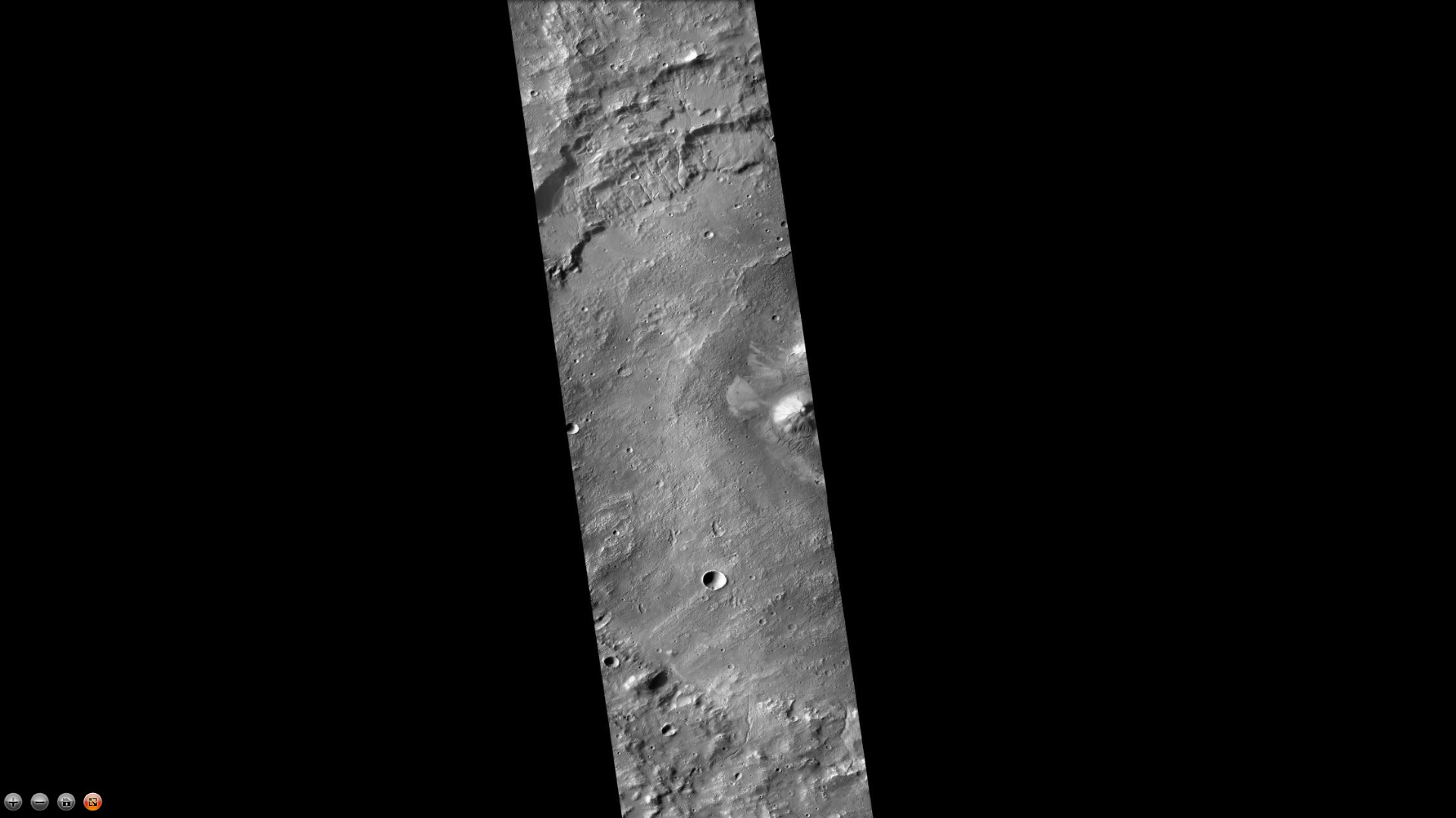 Martz Crater, as seen by ctx